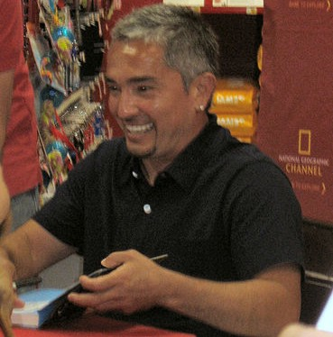 Cesar Millan, the dogwhisperer, 2007